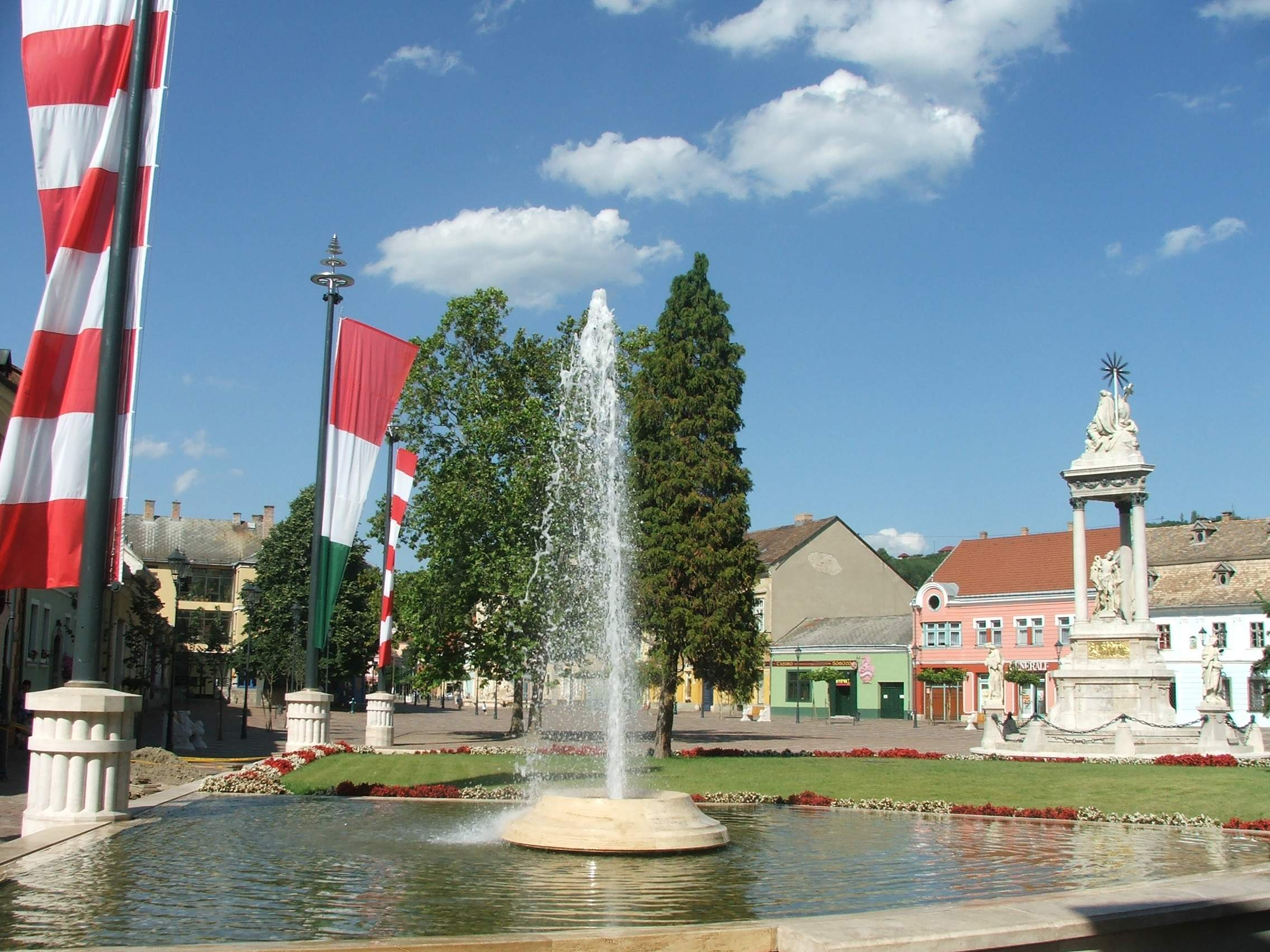 The main square of Esztergom